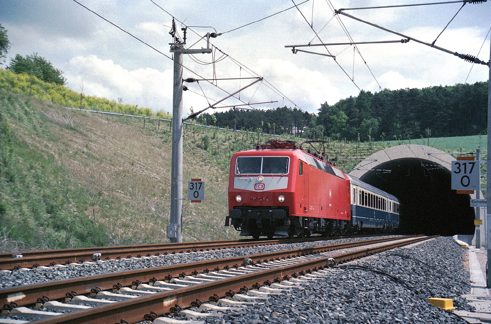 On the first day of regular passenger traffic on the Fulda-Würzburg high-speed railway line, an Intercity train is leaving Eichelberg Tunnel (1869 meters in lengths). The train is pulled by the locomotive 120 129.